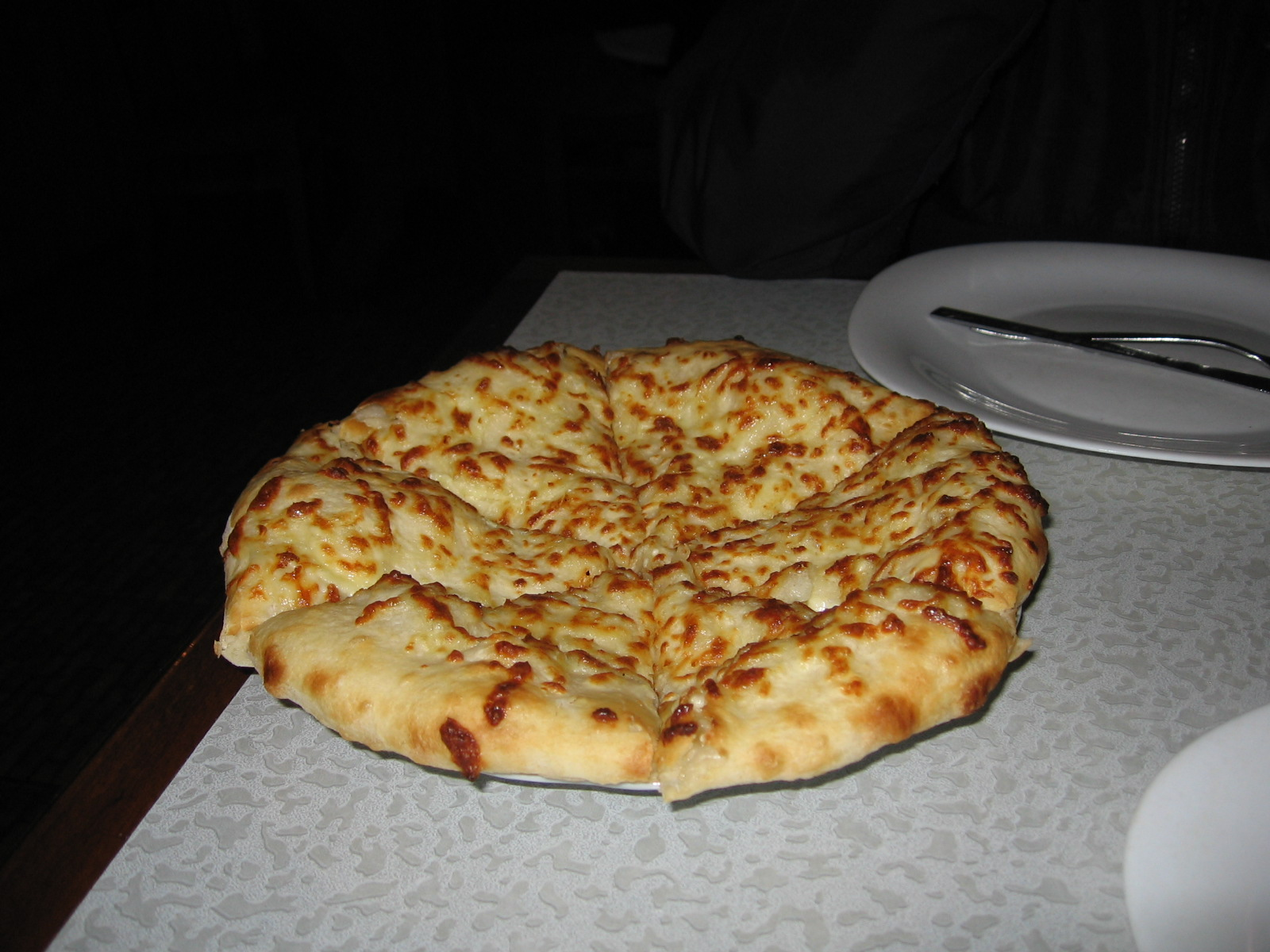 Megruli Khachapuri, filled with cheese and topped with cheese